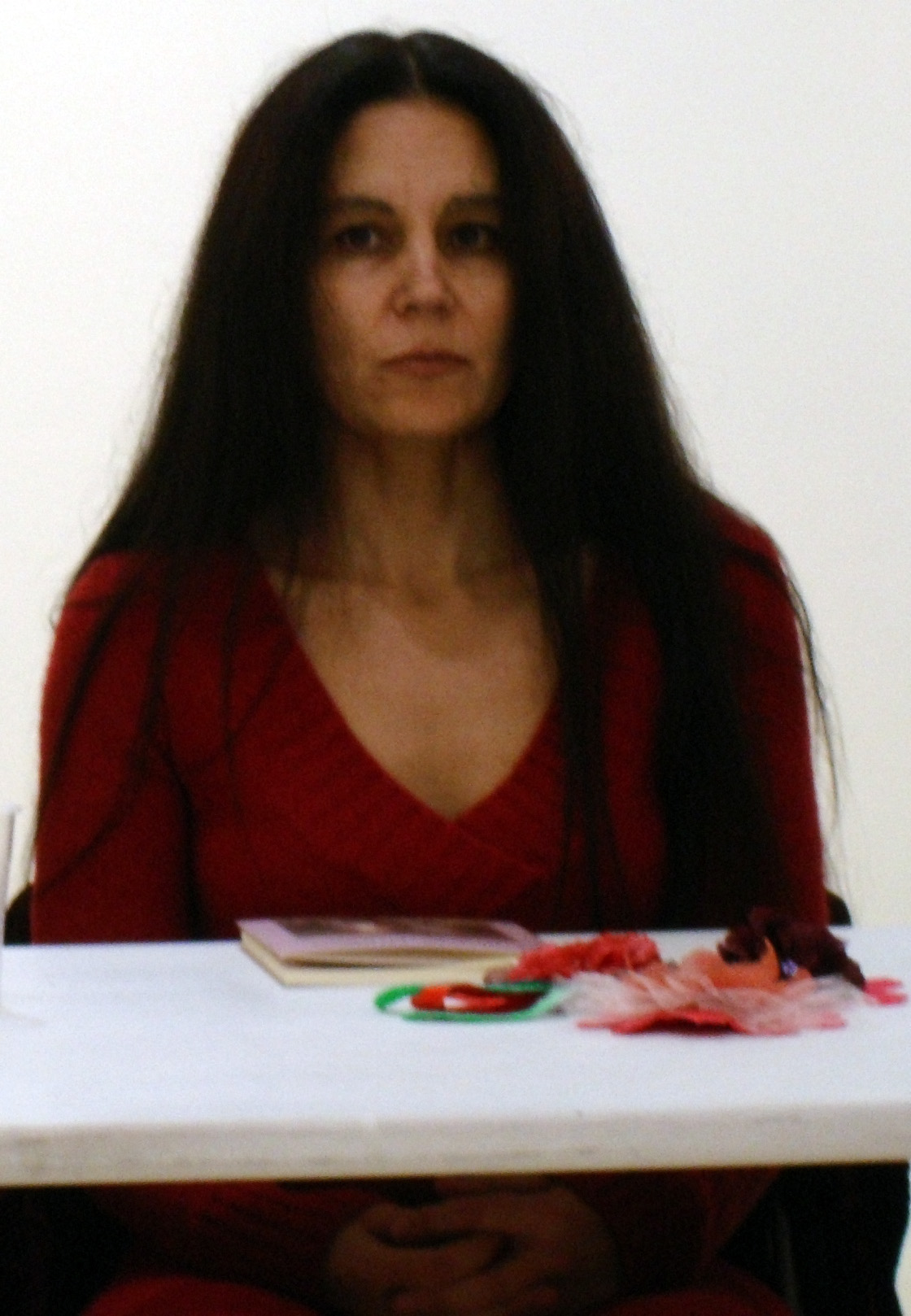 Carmen Blanco at the launch of her book "Vermella con lobos"